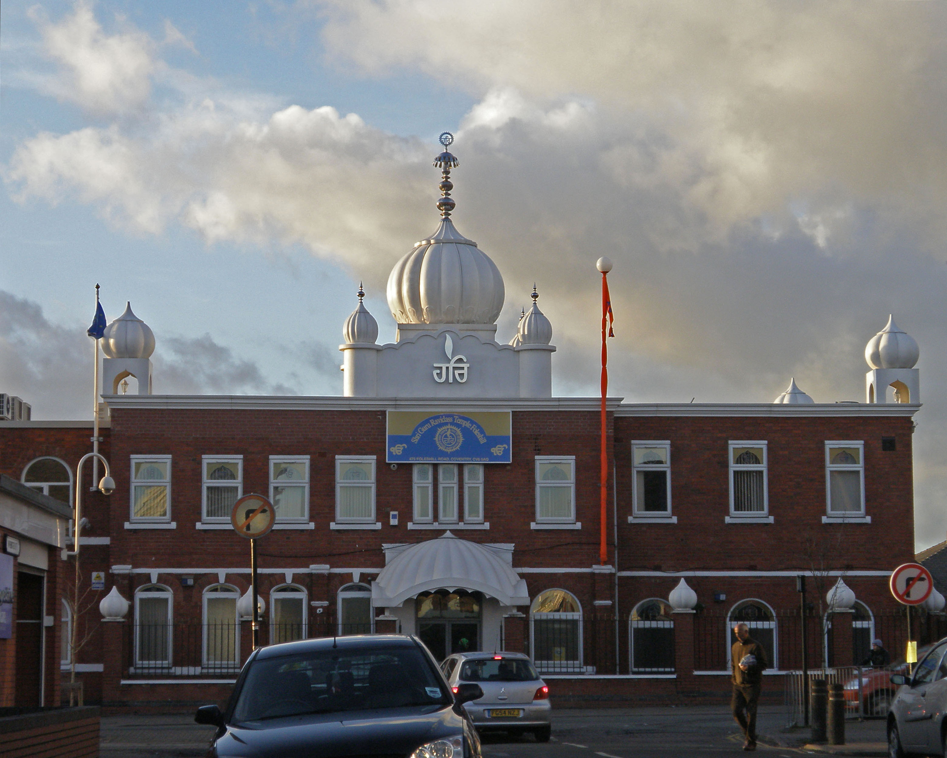 Ravidass temple in Foleshill, Coventry, United Kingdom Ravidas, Raidas, Rohidas